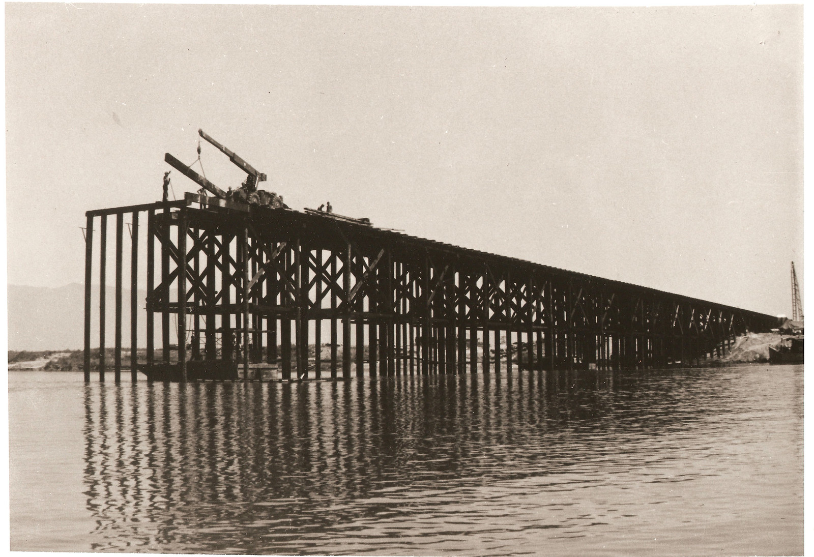 2,040' Liberty bridge built by MCB 4 over the Song Thu Bon river in 1967. Seabee Museum 6847272237